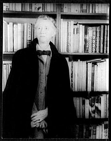 Marianne Moore, 13 November 1948